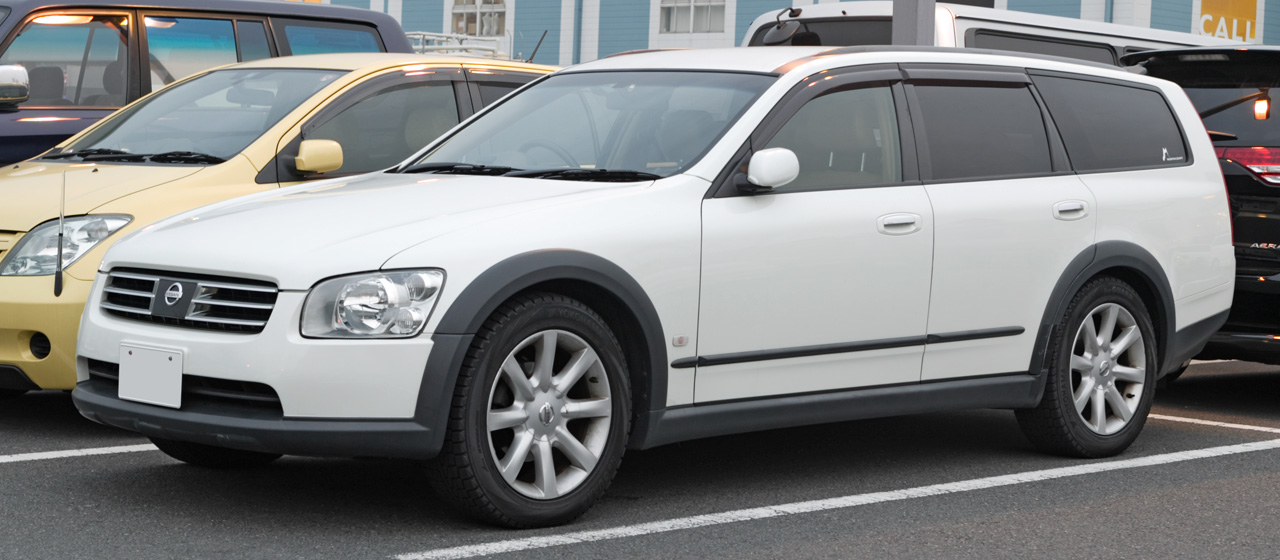 Nissan Stagea M35 AR-X Four